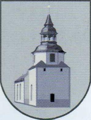 Coat of arms of Heyersdorf near Altenburg/Thuringia